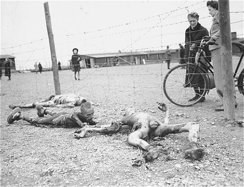 Horrified German civilians forced to come to the camp, examine the corpses of prisoners murdered by the SS during the evacuation of the Leipzig-Thekla concentration camp.